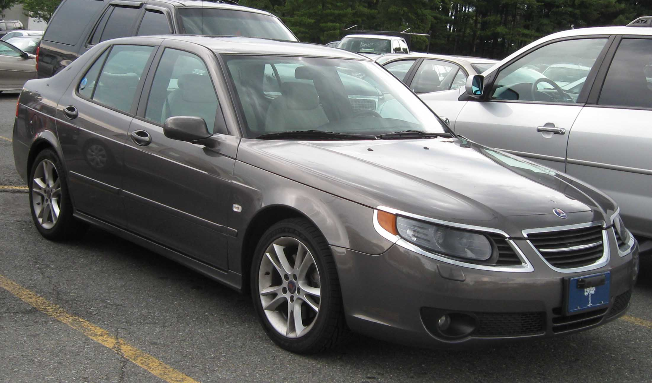 2006-2008 Saab 9-5 photographed in Gaithersburg, Maryland, USA.